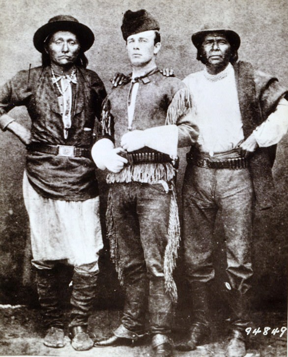 John Clum (center) with Diablo and Eskiminzim, at San Carlos Agency. Clum later was mayor of Tombstone, Arizona.